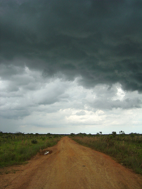 huyendo de la nube... Location: Guacacías